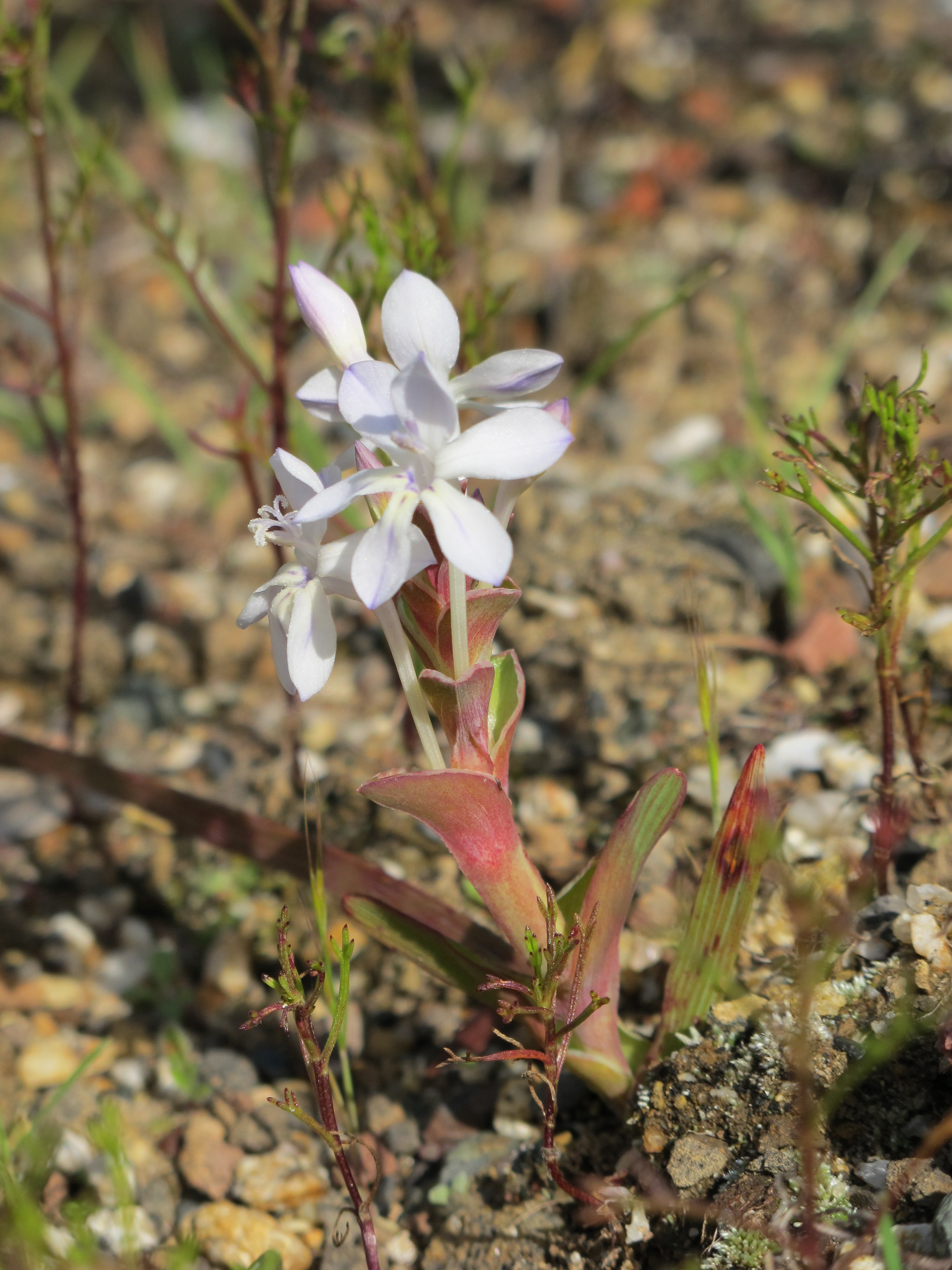 University of California Botanical Garden at Berkeley, California, USA. A tiny plant. It was no more than 3 inches (7.5 cm) tall!